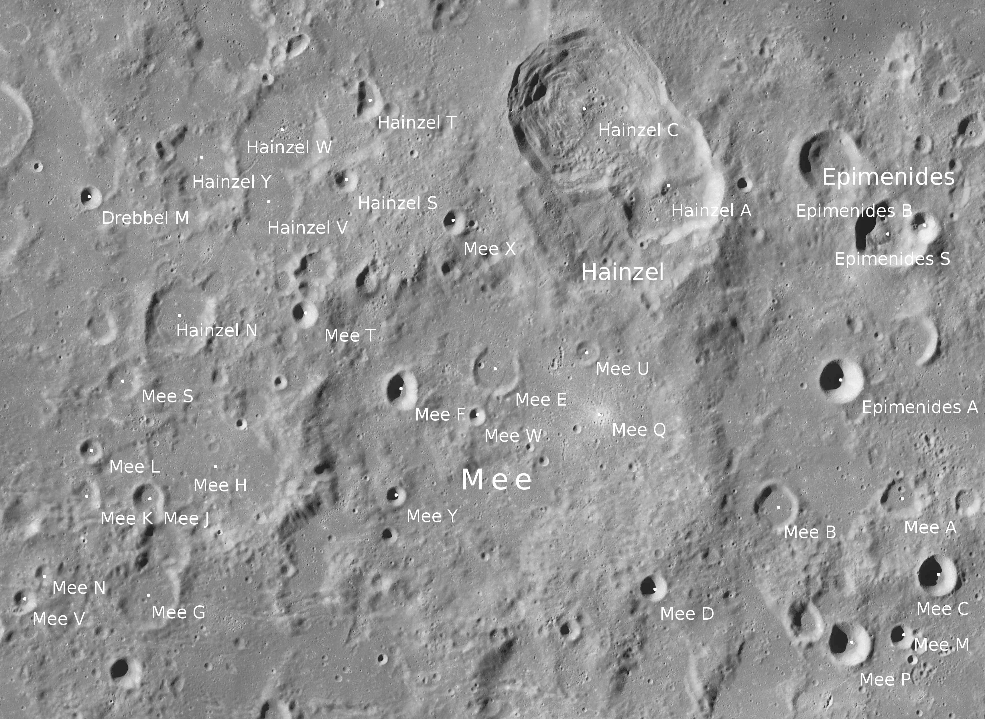 Craters Mee and Hainzel (detail of LRO - WAC global moon mosaic; Mercator projection)